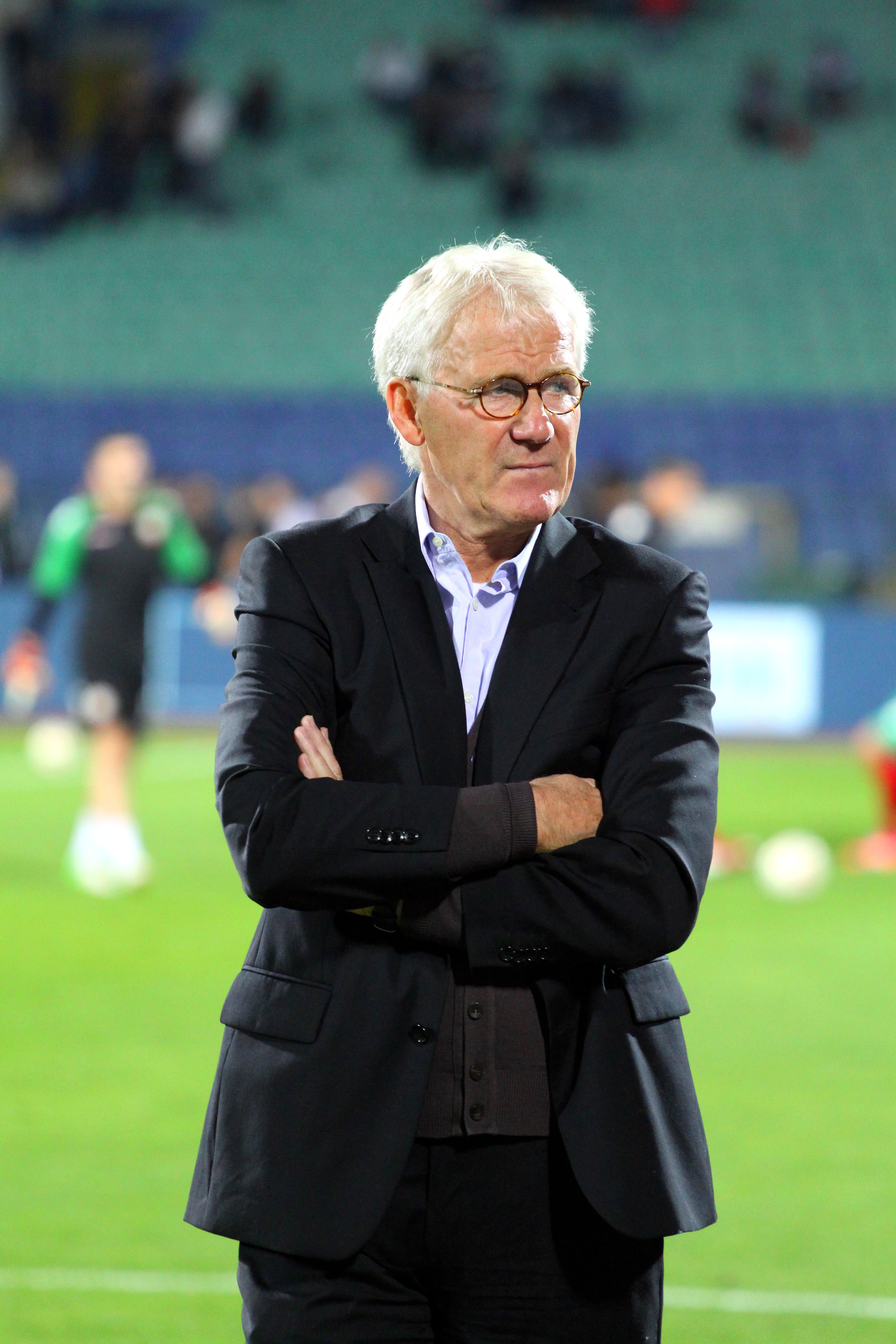 Morten Per Olsen (born 14 August 1949) is a Danish football manager and former football player, coach of the Danish national team.